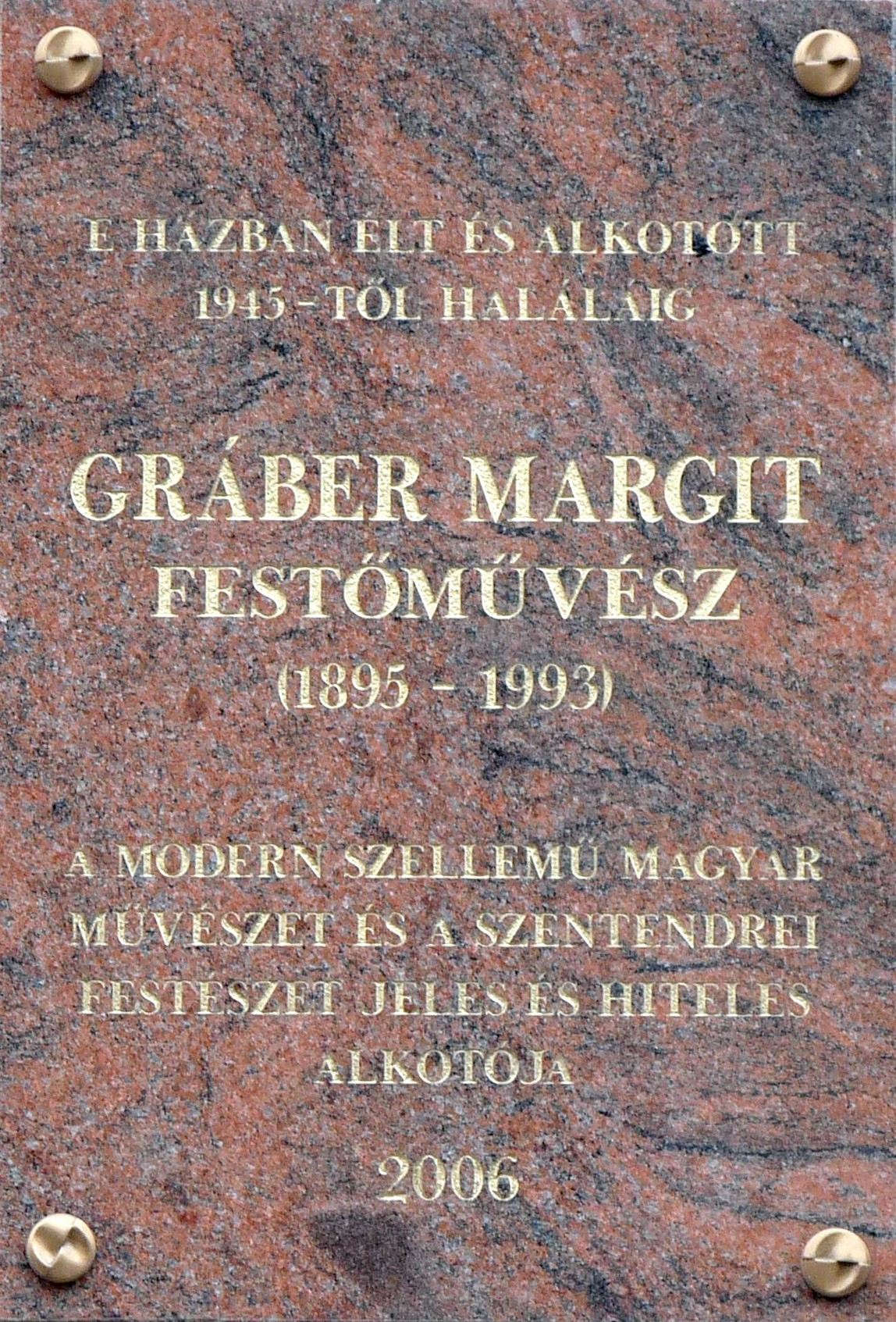 Margit Gráber commemorative plaque in Budapest District VI, Andrássy Avenue No 85.